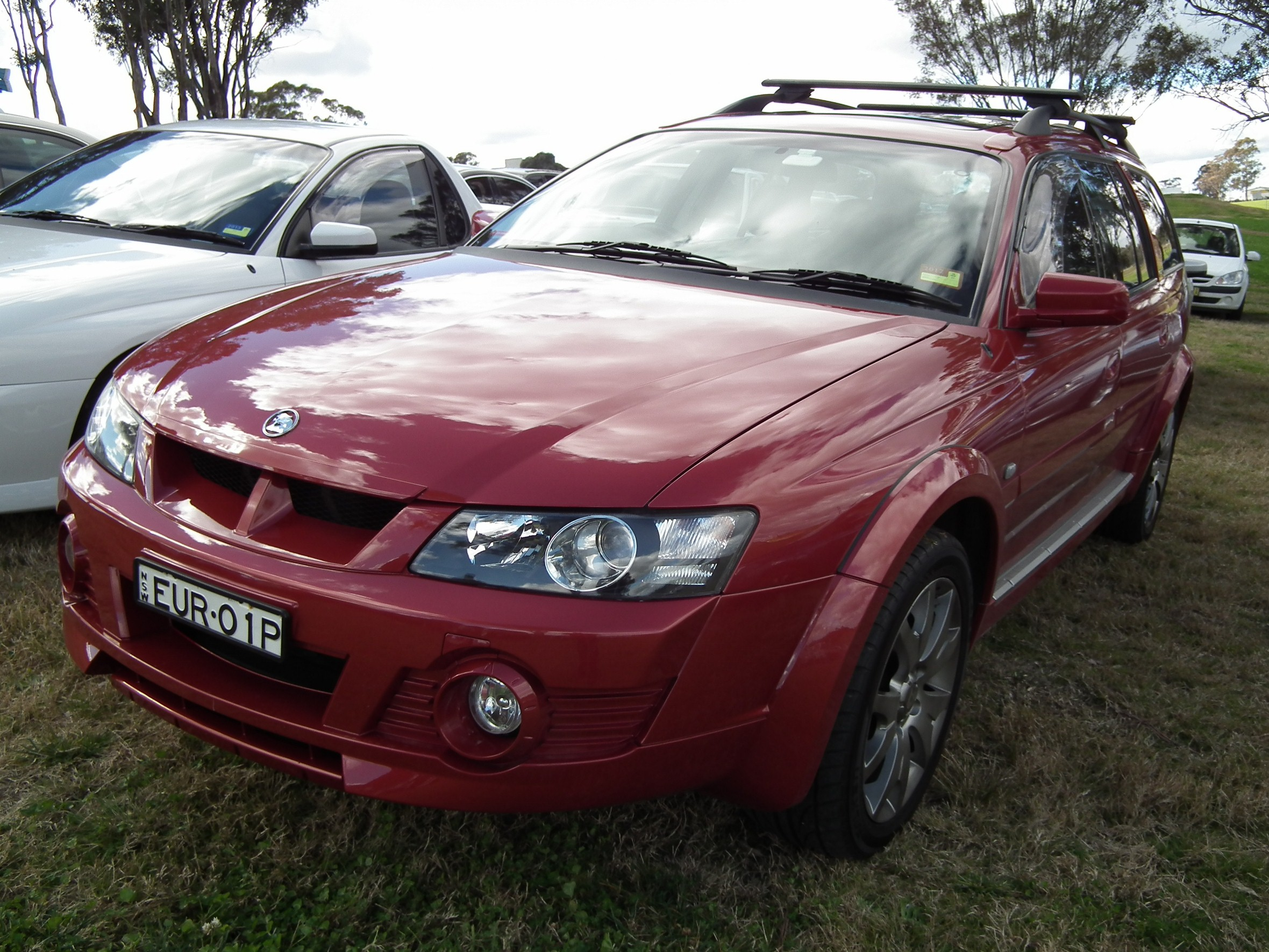 2004 HSV VZ Avalanche station wagon. The Avalanche was HSV's version of Holden's Commodore based Adventra All Wheel Drive wagon. Taken in the car park at the 2012 New South Wales All Ford Day, held at Sydney Motorsport Park (formerly Eastern Creek Raceway).